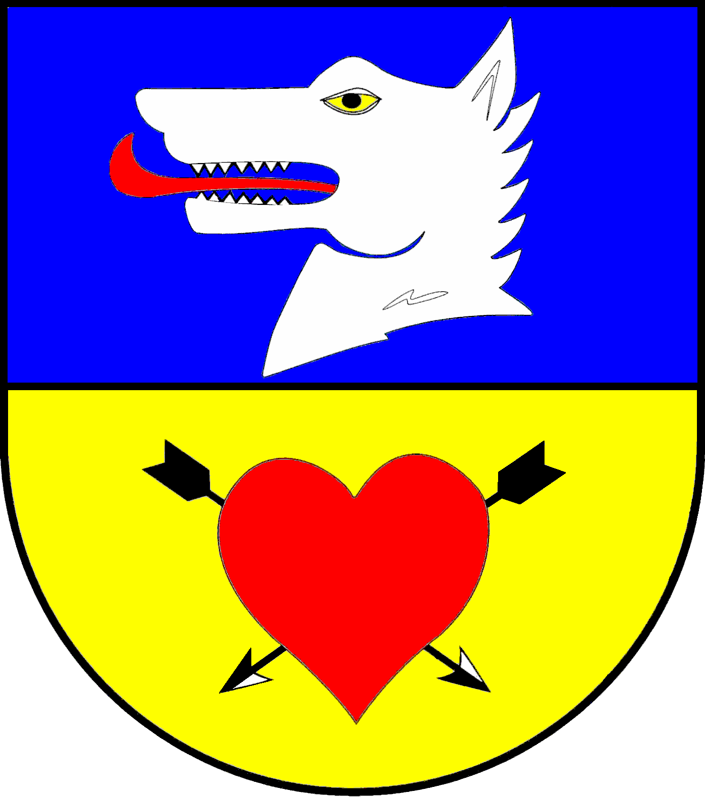 Coat of arms of the municipality Dollerup in Schleswig-Holstein, Germany.